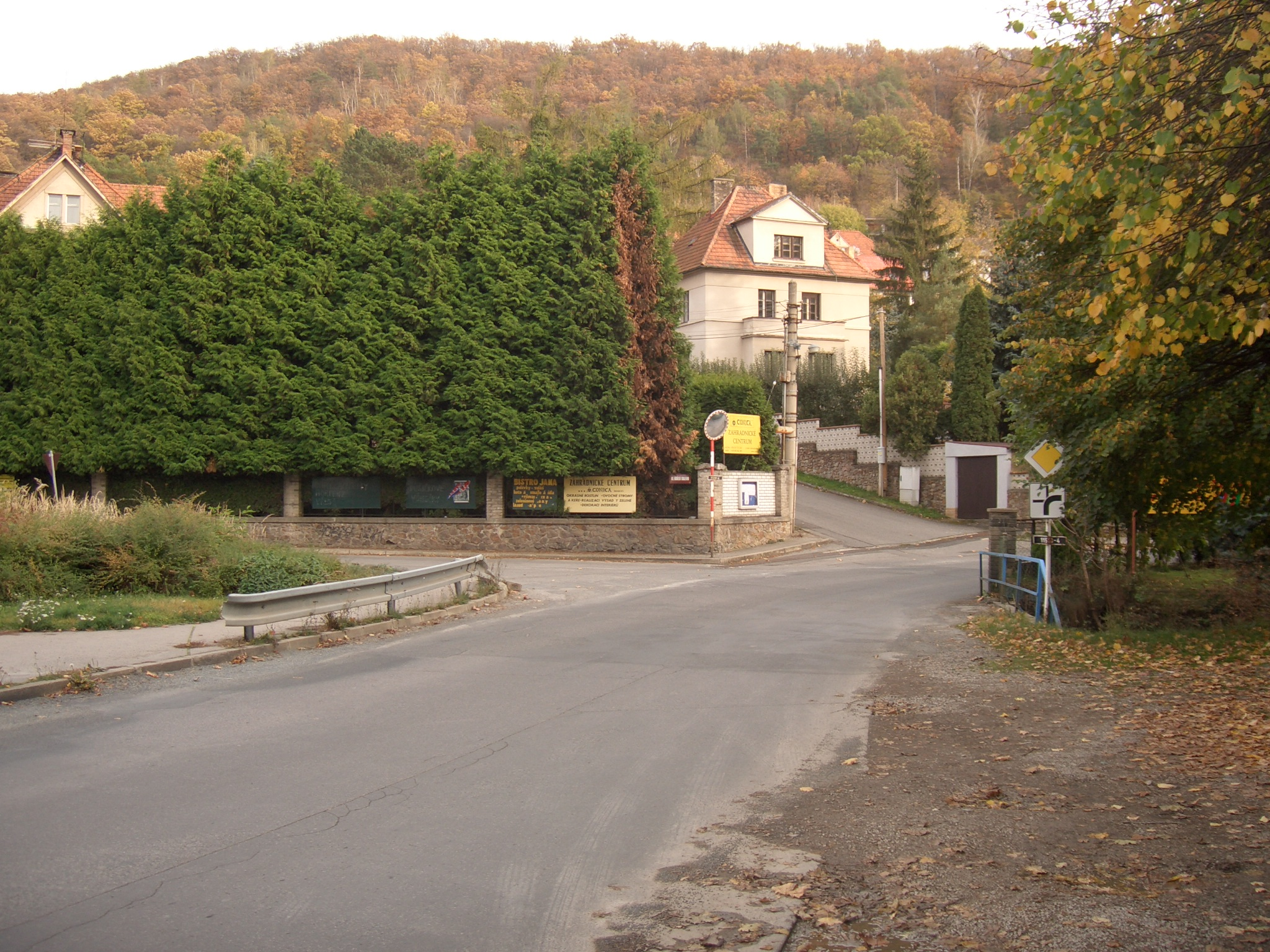 Všenory, Prague-West District. Květoslava Mašity street, a bridge over the Všenory Stream.